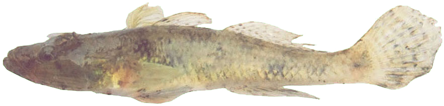 A fresh water fish species from Kathani river of Wainganga basin from the Gadchiroli district of Maharashtra state India. Originally labelled: Photo: Dr. Nilesh Heda, Glossogobius giuris (Hamilton- Buchanan)